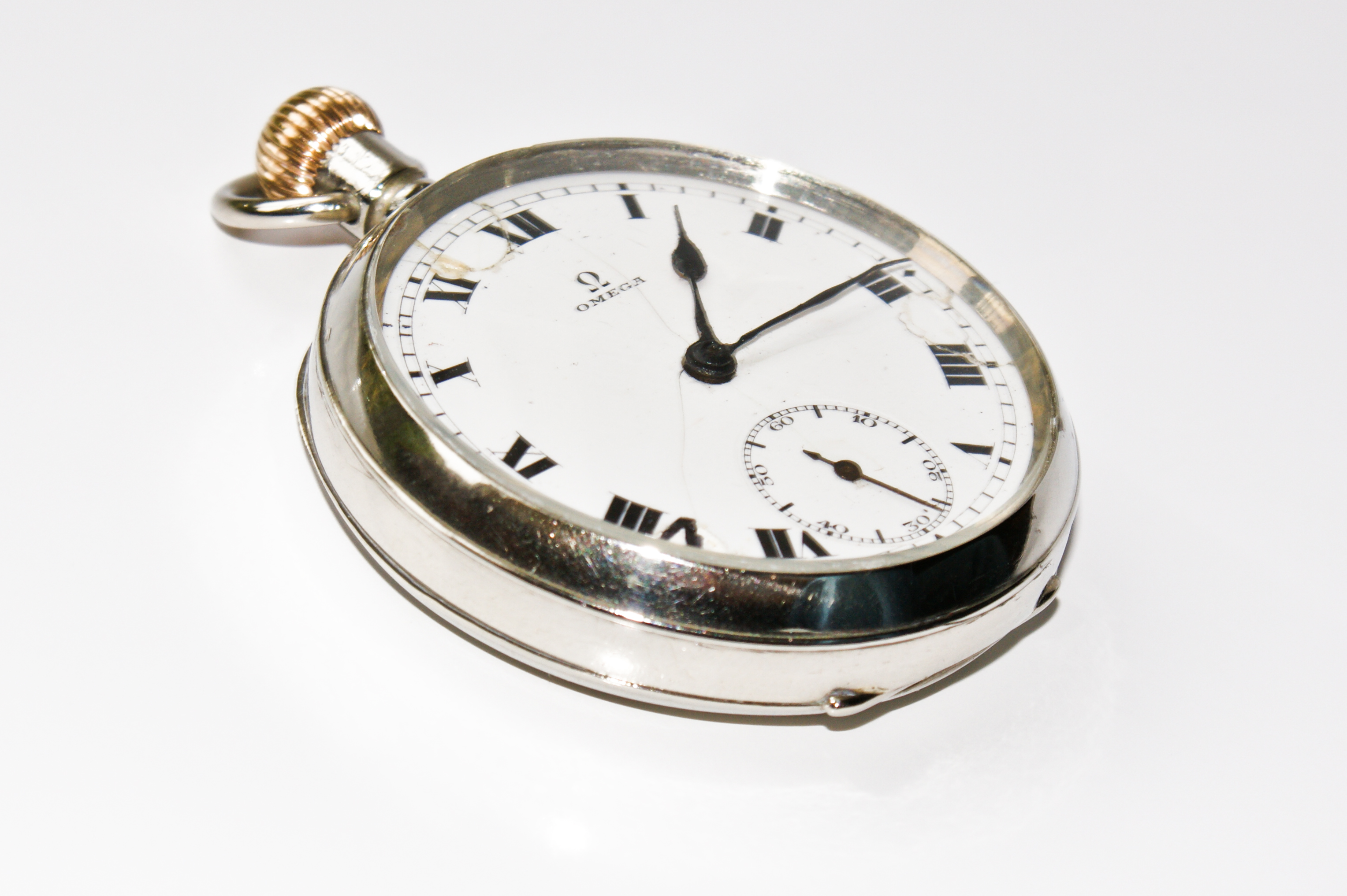 A vintage Omega pocket watch of around 1950's origin.